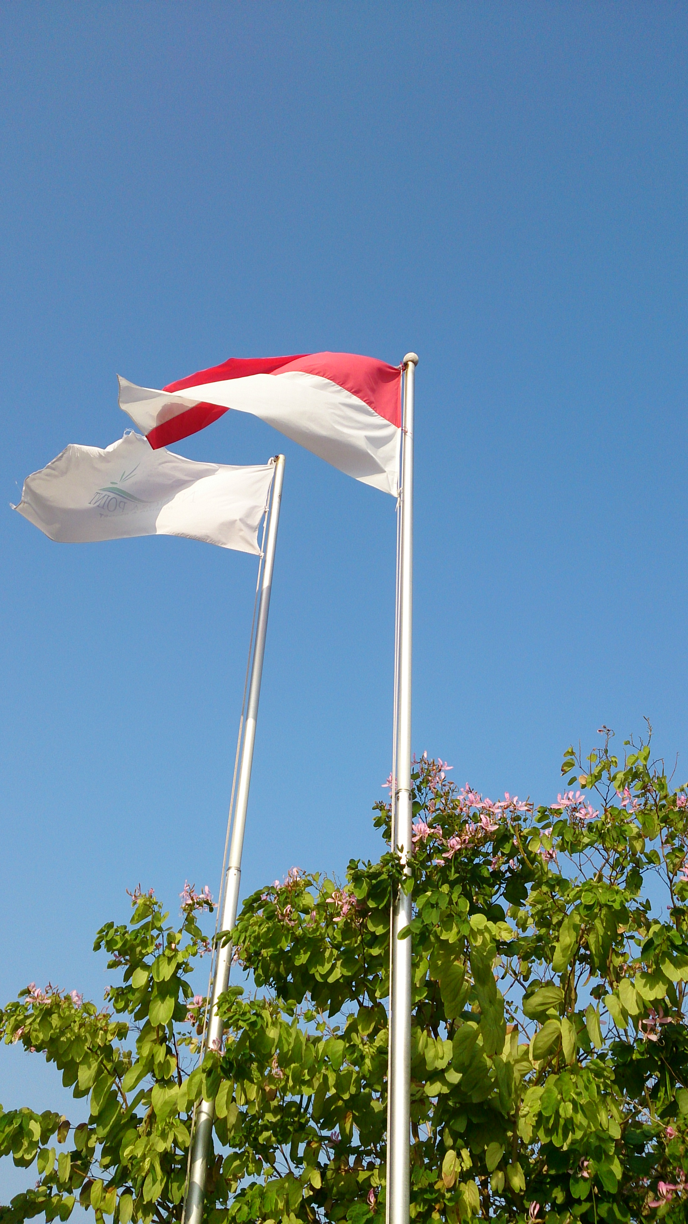 red and white